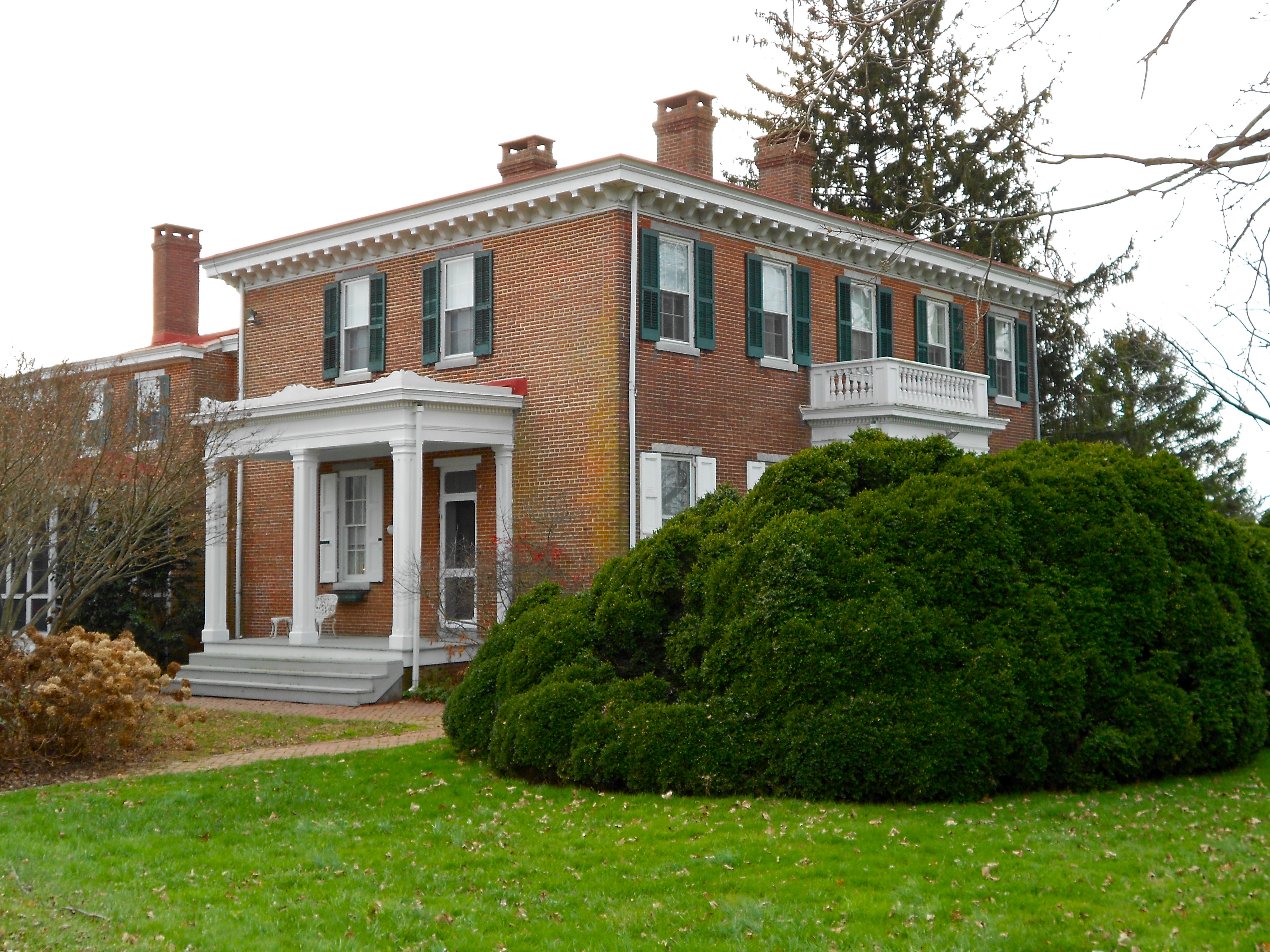 "Monterey" house and farm on the NRHP since December 5, 1980. North of Odessa, Delaware on Bayview Rd. Note that another NRHP site "Misty Vale" (on the NRHP since September 13, 1985) is a frame house, a short ways east of Monterey. Also DO NOT MISS the frame octagonal privy at Monterey.